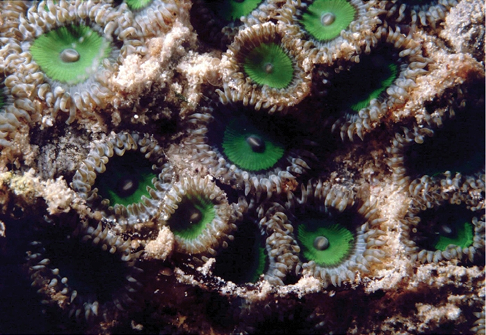 Zoanthus sansibaricus in northeast Buliulin (south of the island Samama), Kalimantan, Berau islands, Indonesia